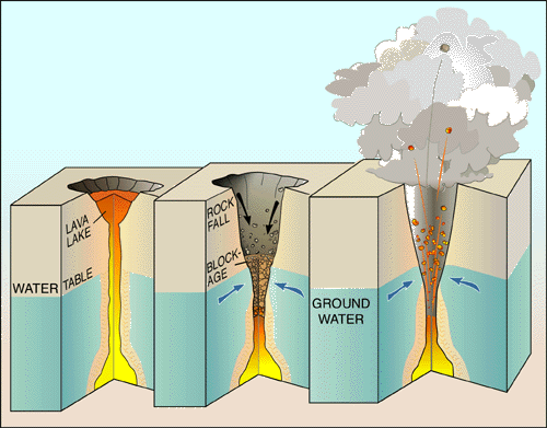 Diagram of explosive eruptions at Kilauea volcano in Hawaii